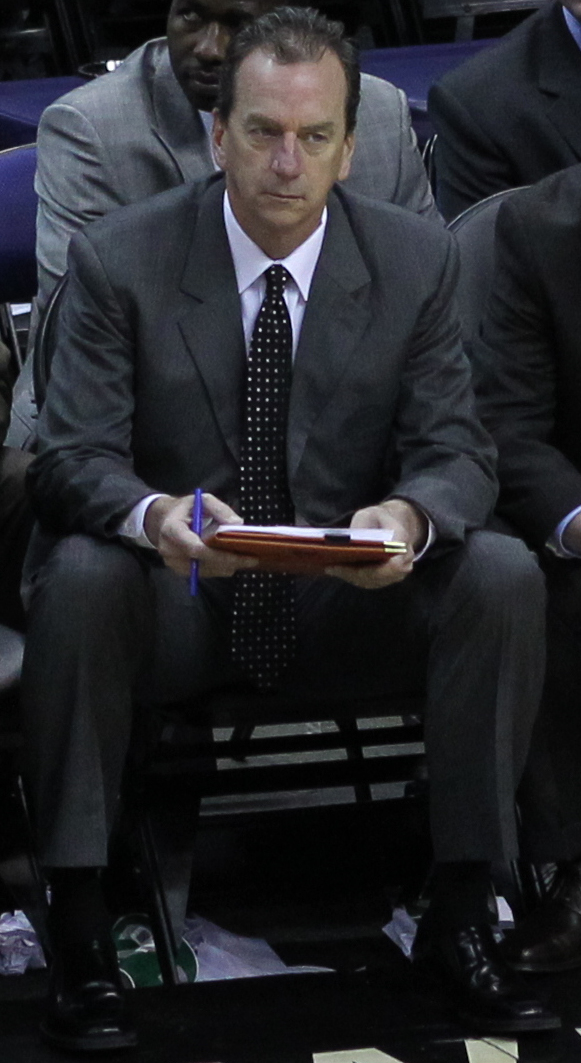 Milwaukee Bucks assistant coach Jim Boylan.